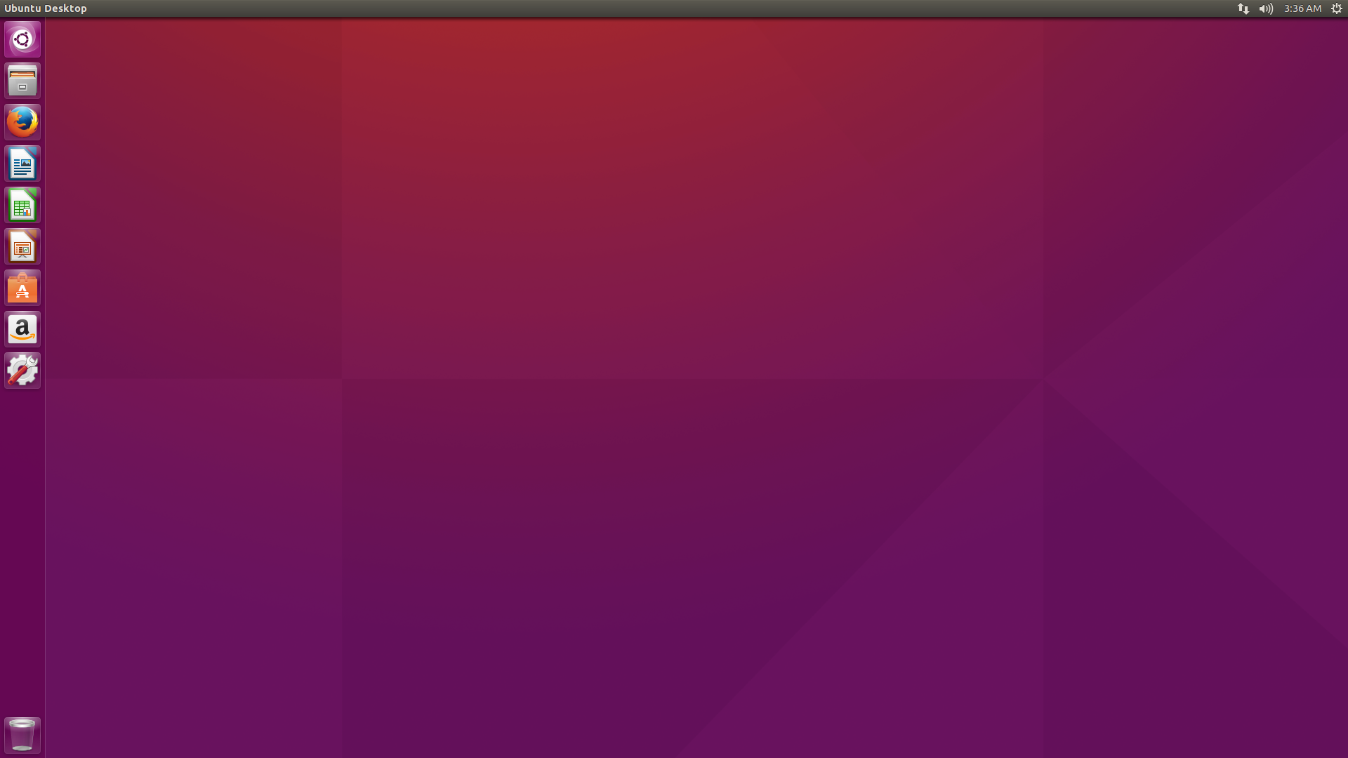 Le bureau Ubuntu 15.10